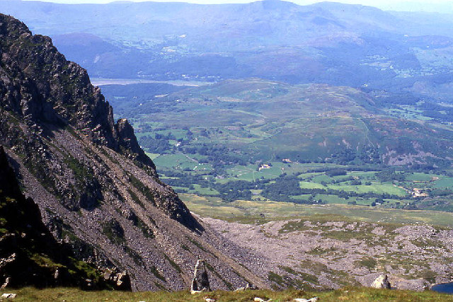 Bontddu and head of the Mawddach estuary from Cader Idris.